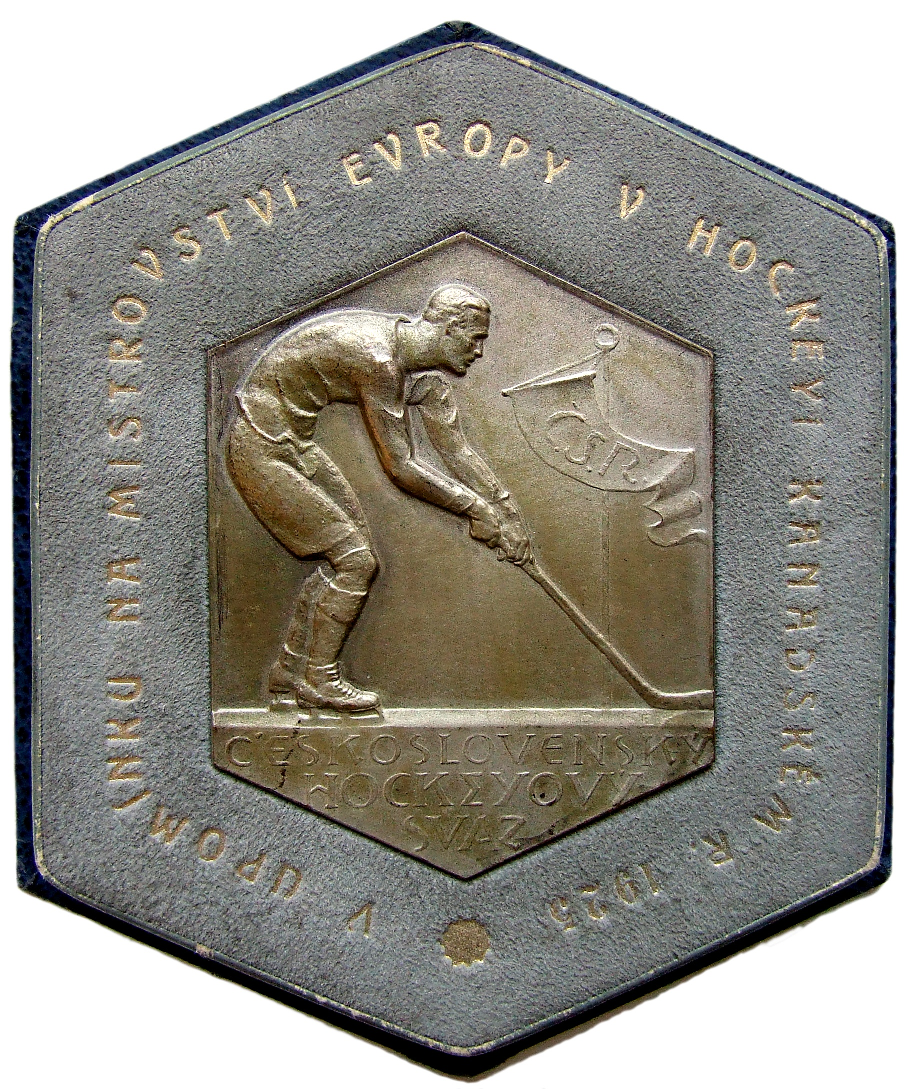 One Century Of Czech Ice Hockey Exhibition, National Museum in Prague: [1]